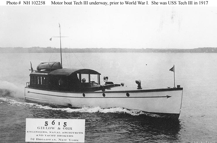 The private motorboat Tech III sometime prior to her United States Navy service as the patrol vessel